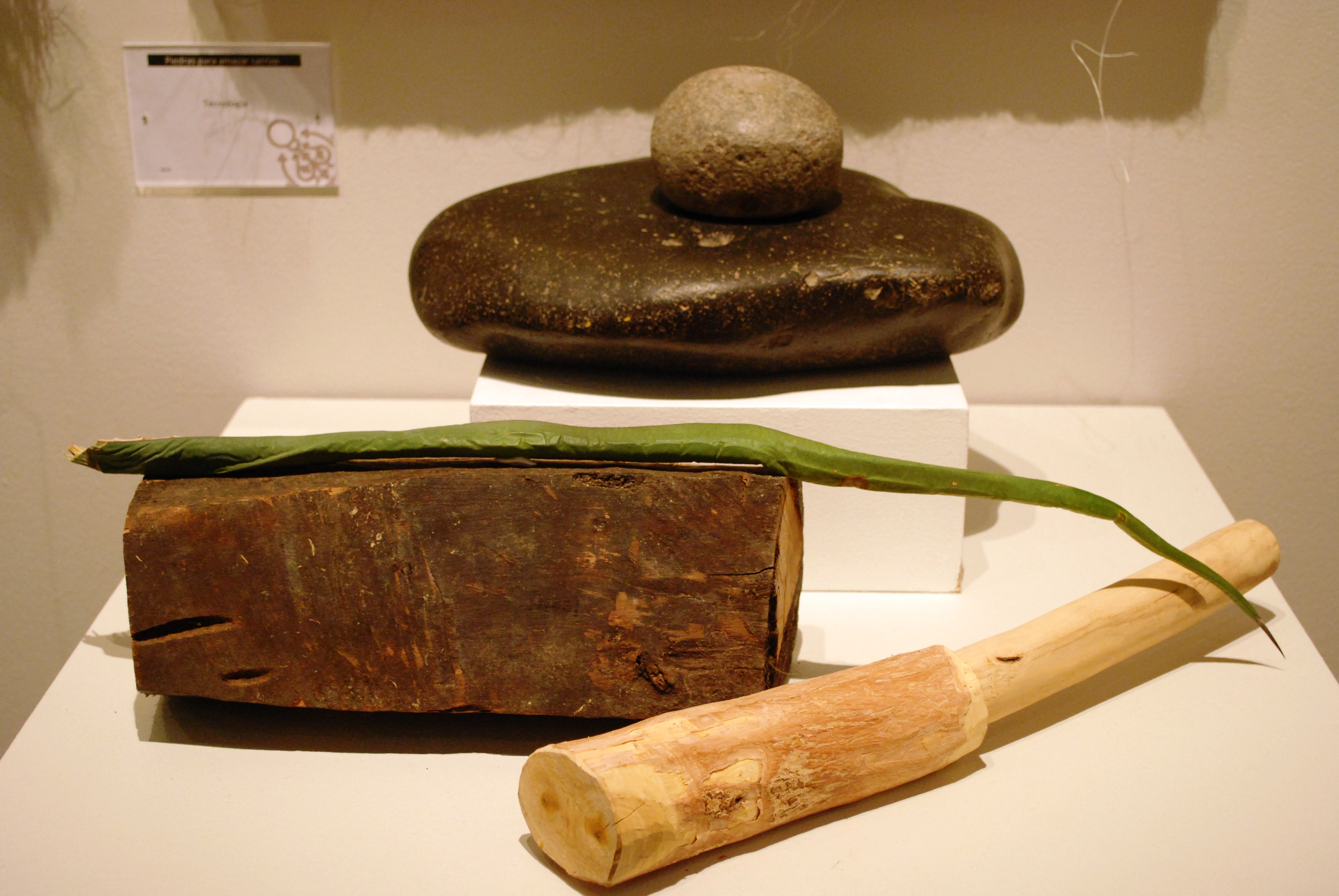 Tools used to obtain ixtle fiber as part of a display on crafts of Hidalgo at the Museo de Arte Popular, Mexico City